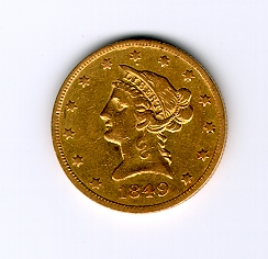 Coin from the Brother Jonathan shipwreck THE BROTHER JONATHAN SHIPWRECK EXHIBIT: Coronet Type $5.00 Gold Piece. This coin, minted in 1852, was recovered from the Bro. Jonathan Wreck like the others. Coins like this one currently carry a value from $170 - $8,000 for the "D" series (Bressett: 1999). Source: California Government: In general, information presented on this web site, unless otherwise indicated, is considered in the public domain. It may be distributed or copied as permitted by law.